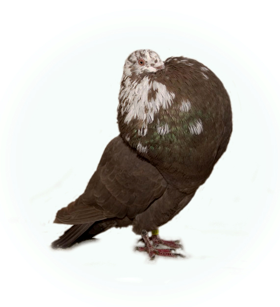 Gaditano Cropper (Brown Spangle) one of many spanish cropper breeds